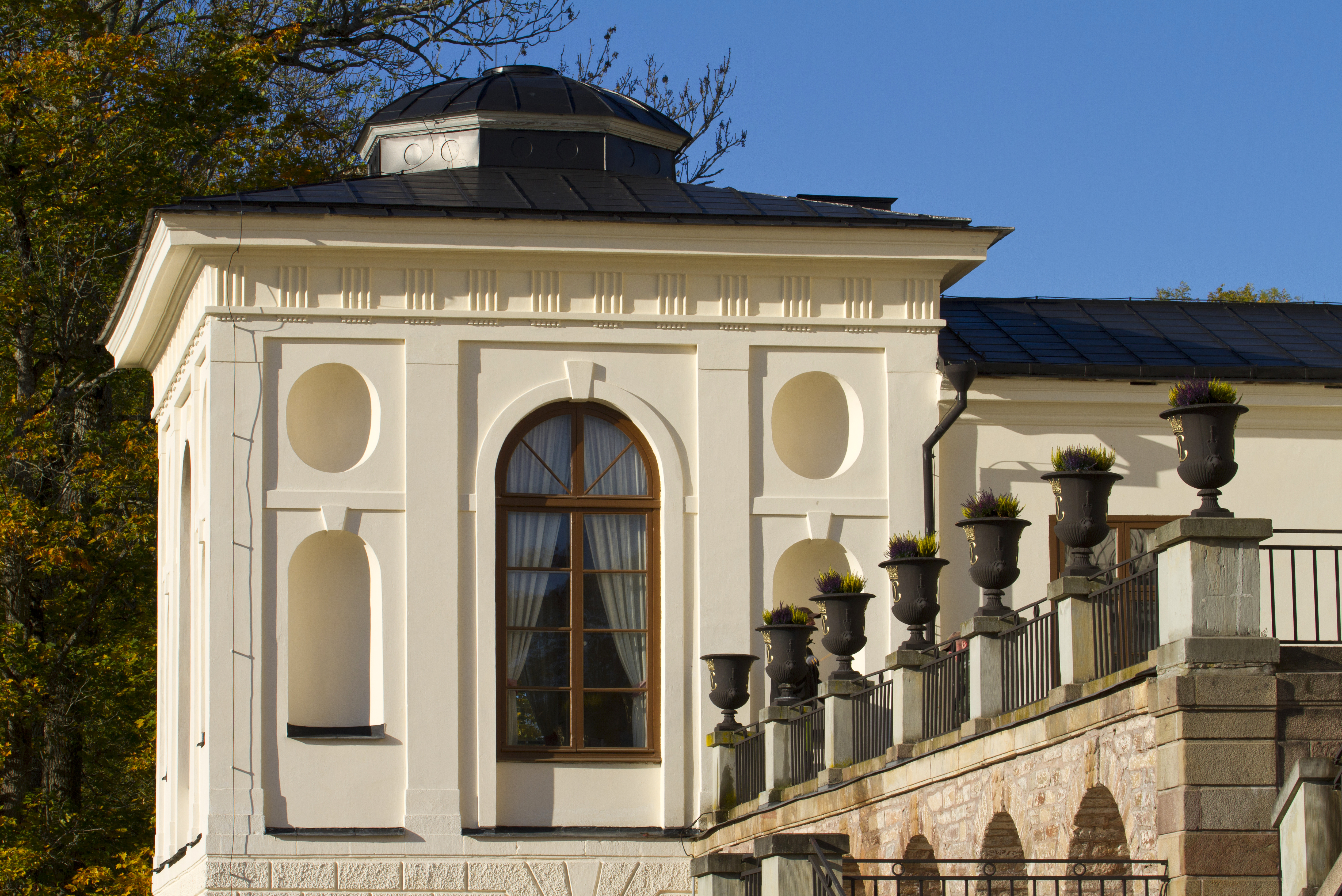 Right wing at Rosersbergs Palace